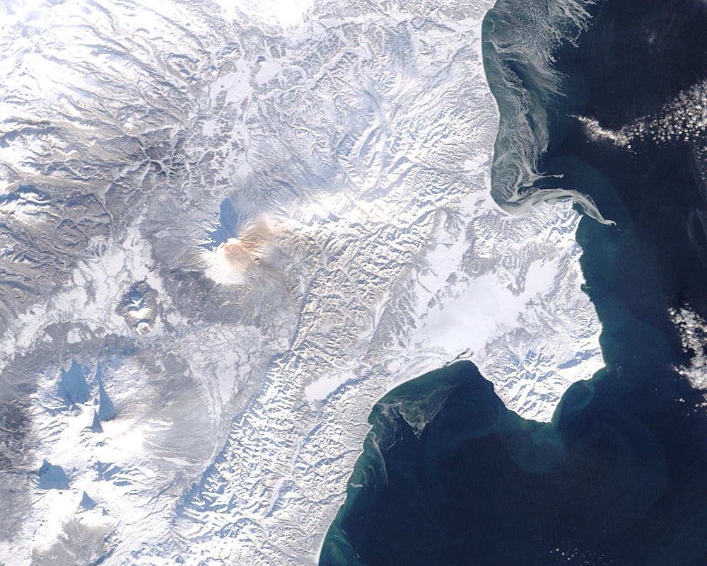 Klyuchevskaya Sopka, the largest volcano on the Russian peninsula of Kamchatka, and Shiveluch, a neighboring volcano, are becoming active again. According to news reports, Klyuchevskaya is sending ash to a height of 50 meters, though the plume is barely visible in the lower left corner of the image. The 15,863-foot tall volcano is the region’s most active. Its most recent eruption ended in January of 2003. Shiveluch, above Klyuchevskaya on the right, erupted on January 11, 2004, sending volcanic ash to a height of 1.5 kilometers, and rock and melted snow down the mountainside. At a height of 10,771 feet, Shiveluch is one of the region’s largest and most active volcanoes. Its last eruption, which lasted for two years, ended late last year. Shiveluch’s ash plume is visible in this true-color Moderate Resolution Imaging Spectroradiometer (MODIS) image. Brown ash from the eruption taints the snow around the volcano. Klyuchevskaya, below Shiveluch and to the left, has a thin, barely-visible plume of ash flowing east from its top. The Terra satellite acquired this image on January 12, 2004.